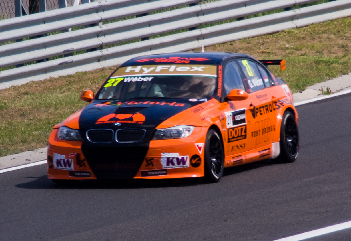 BMW 320 TC Gábor Wéber 2012 Race of Hungary Hungaroring